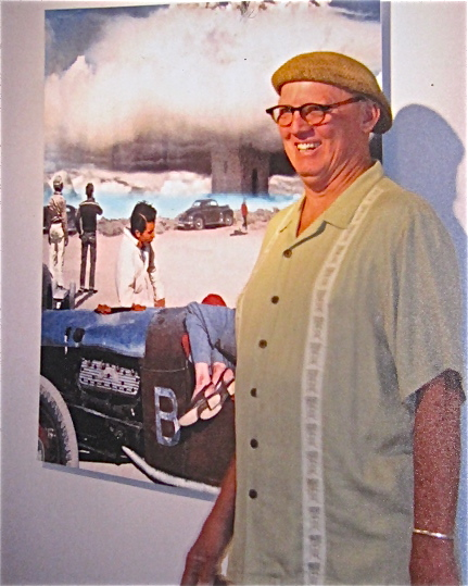 John Lamb next to "B is for Bombshell" at his "Blast from the Past" art opening at Linksoul Lab.